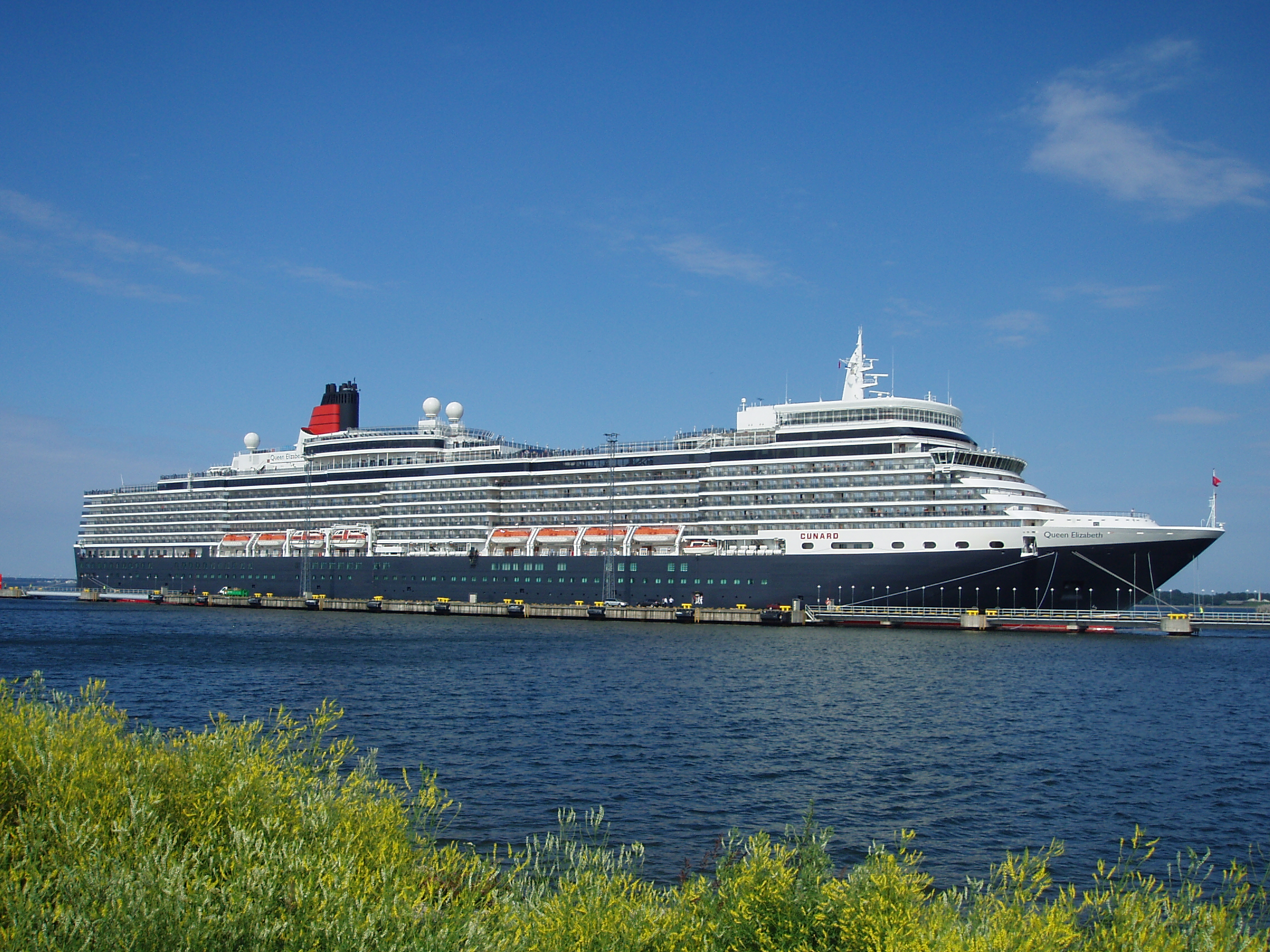 Cruise ship Queen Elizabeth in Tallinn 7 July 2011